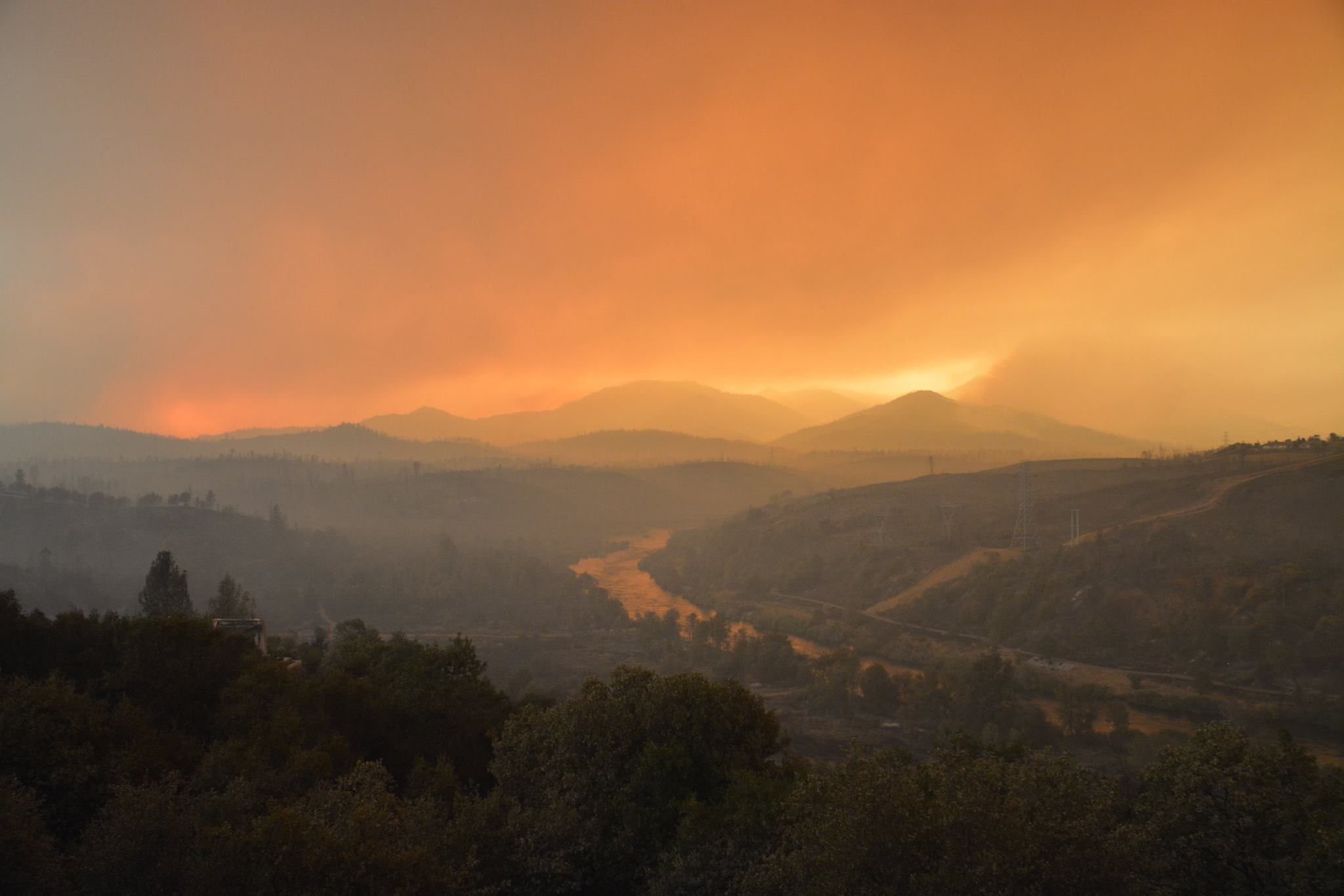 CarrFire [update] off Hwy 299 and Carr Powerhouse Rd, Whiskeytown (Shasta County) is now 83,800 acres and 5% contained. NEW MANDATORY EVACUATION ORDERS IN PLACE. Unified Command: CAL FIRE Shasta-Trinity Unit and Whiskeytown National Park.